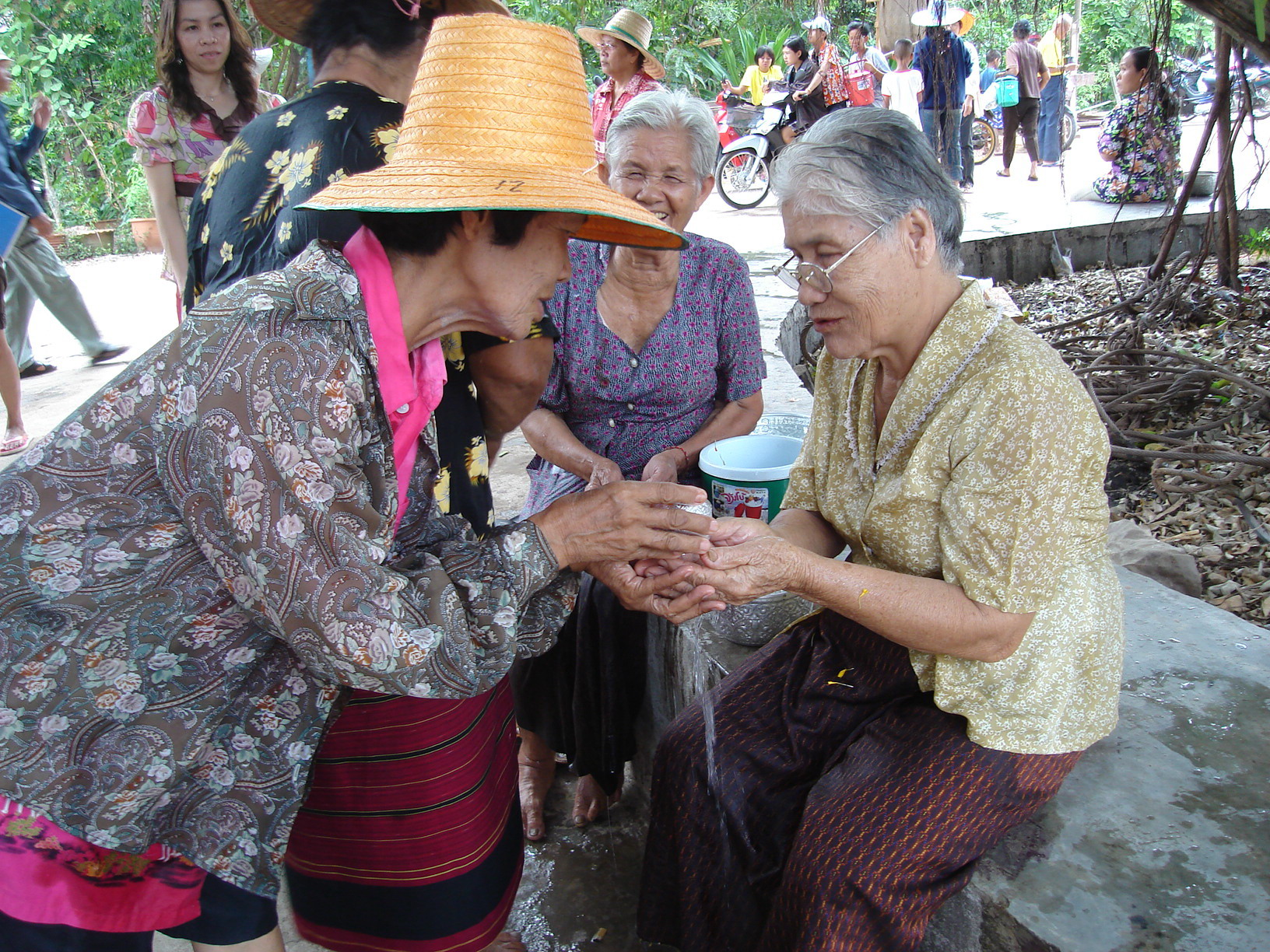 SongkranLocation: Wat Khung Taphao Ban Khung Taphao, Khung Taphao subdistrict, Mueang Uttaradit, Uttaradit Province, Thailand.